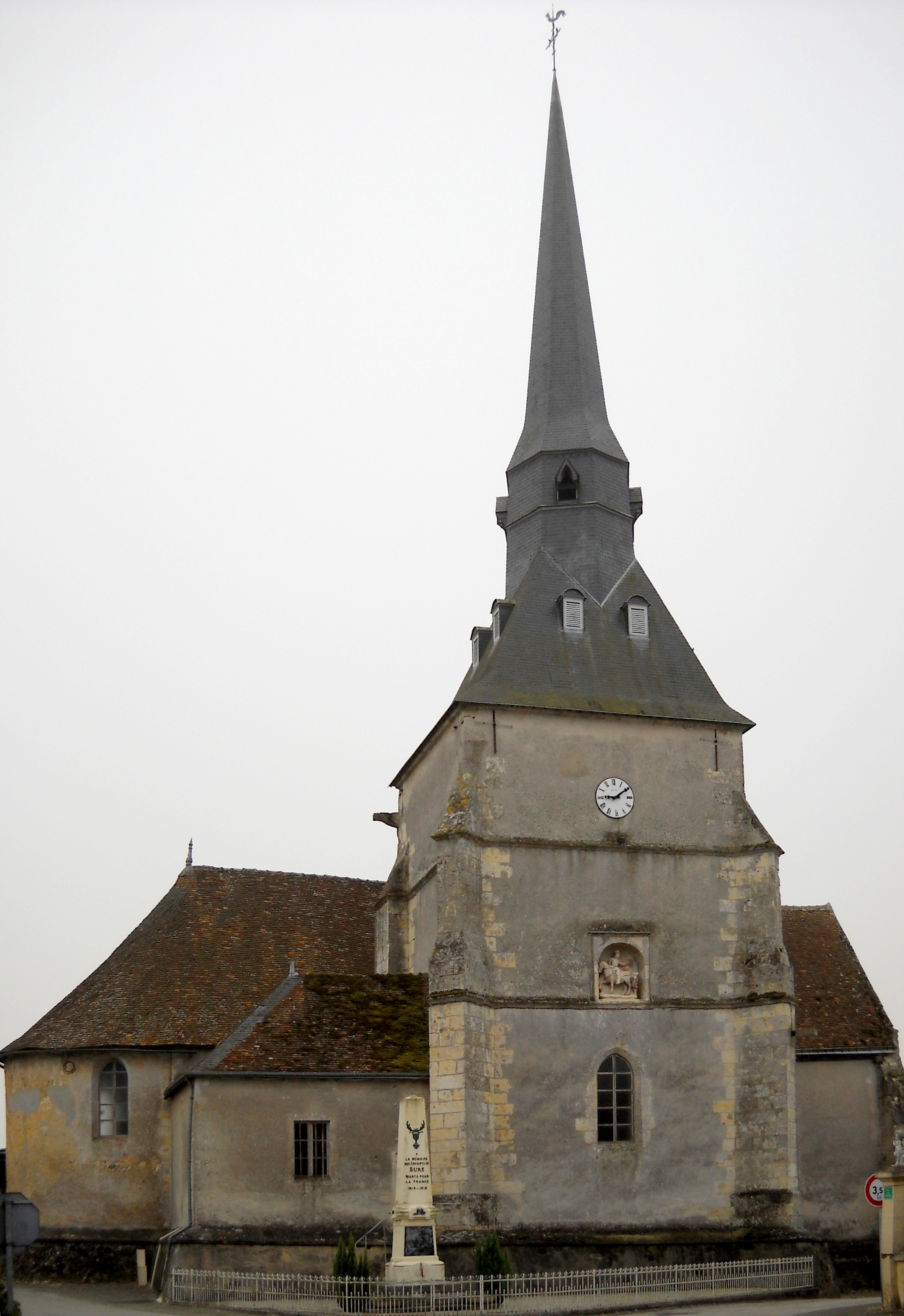 The church of Suré, Orne, France.